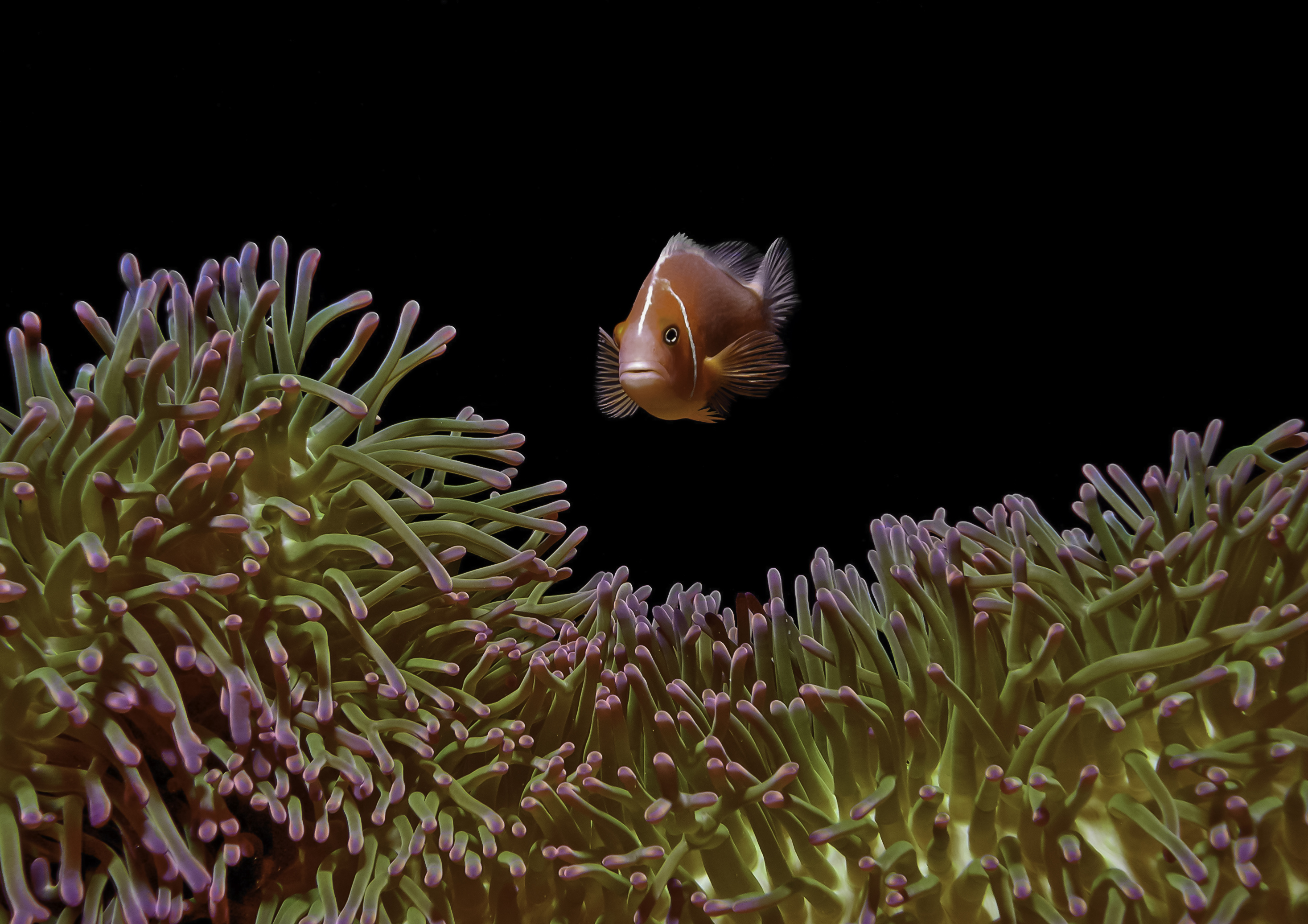 Pink anemonefish (Amphiprion perideraion). Photo taken underwater at about 40 ft (12 m) deep at Manta Ray Bay, Yap in the Federated States of Micronesia.